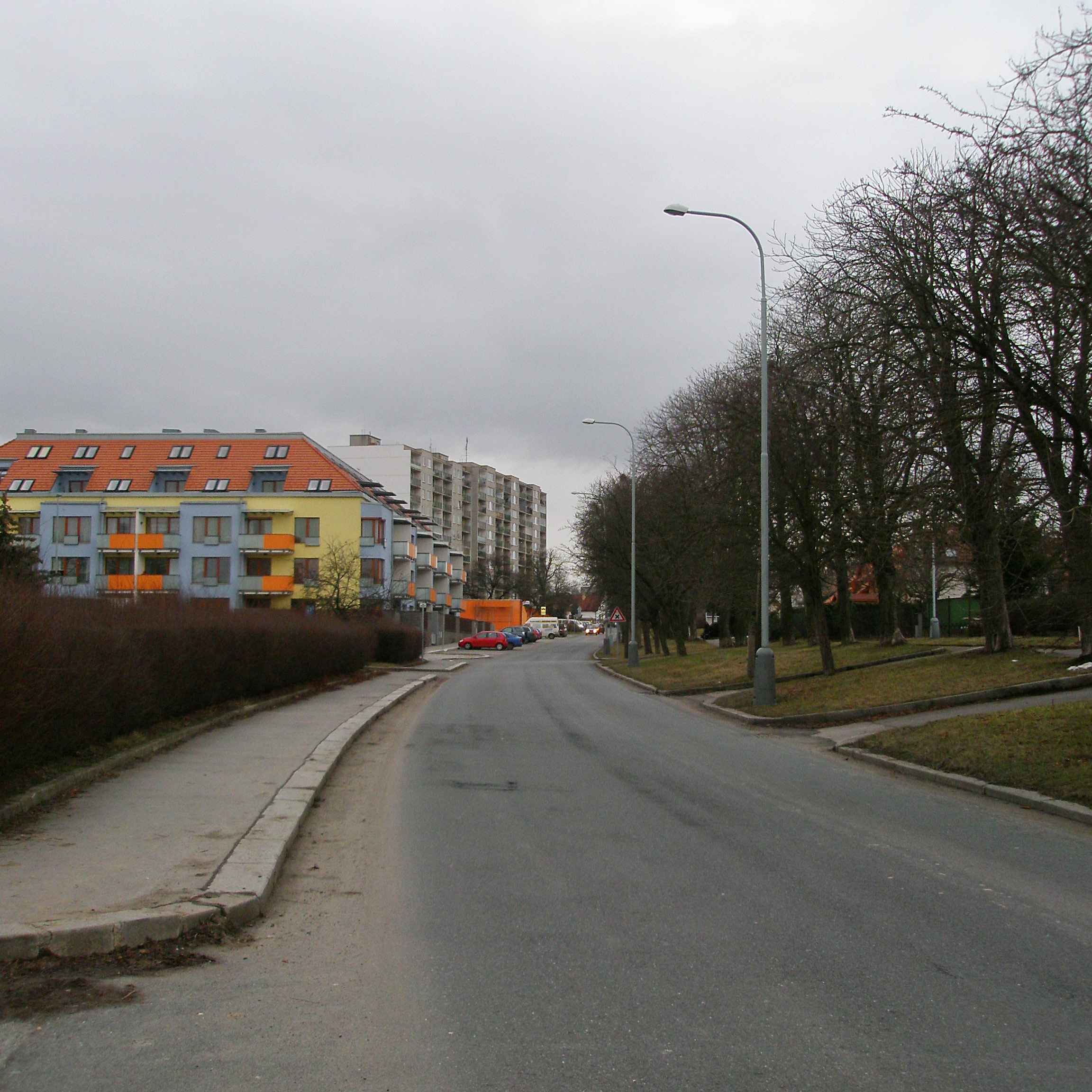 Starochodovská Street in Prague-Chodov